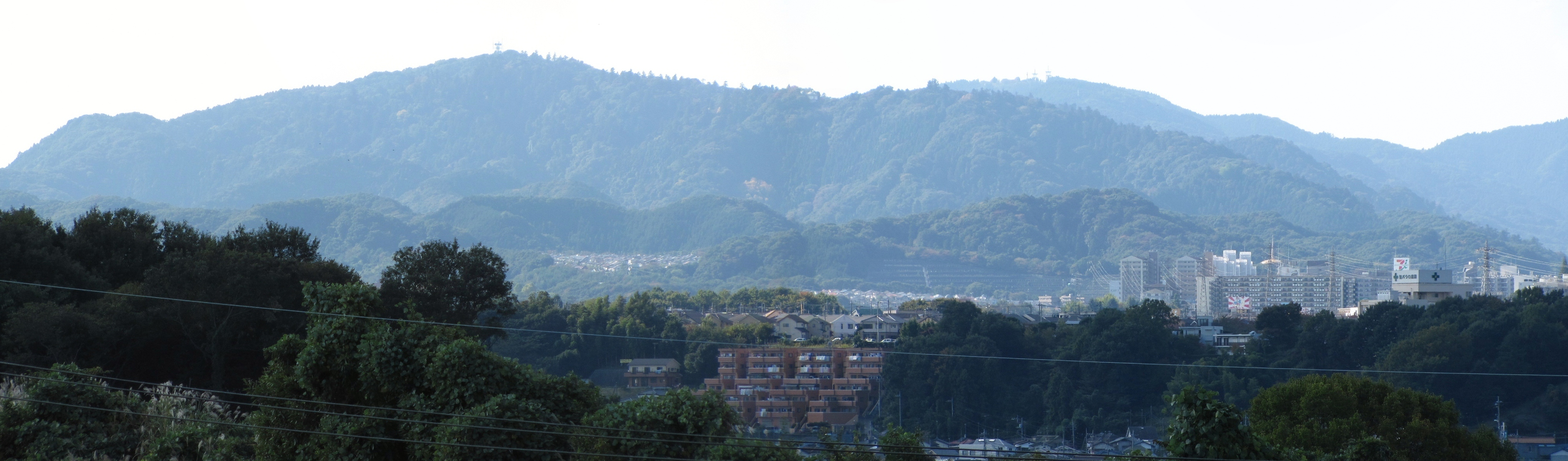 Mount Takao as seen from the east in Hachioji, Tokyo. Shot at Katakura Tsudoinomori Park.